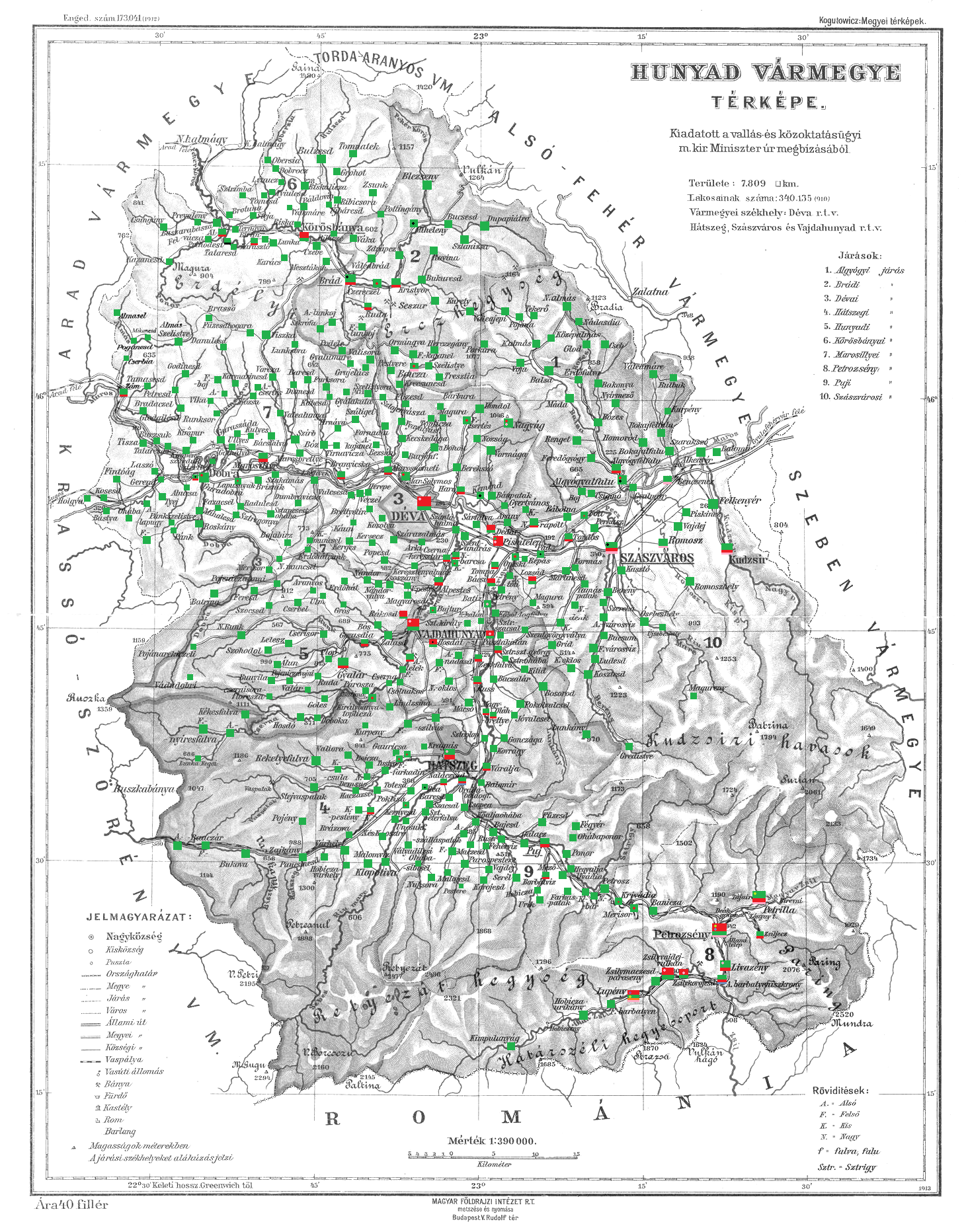 Ethnic map of the county (with data of the 1910 census). Key: dark green - Romanians; red - Hungarians; pink - Germans; light green - Czechs or Slovaks; blue-gray - Italians; orange - Polish; violet - Ruthenians; black - Roma. Coloured dots in plain rectangles imply the presence of smaller minority populations (generally more than 100 people or 10%). Multicoloured rectangles imply cities and villages with multi-ethnic populations with the order of the stripes following the ethnic composition of the settlement.